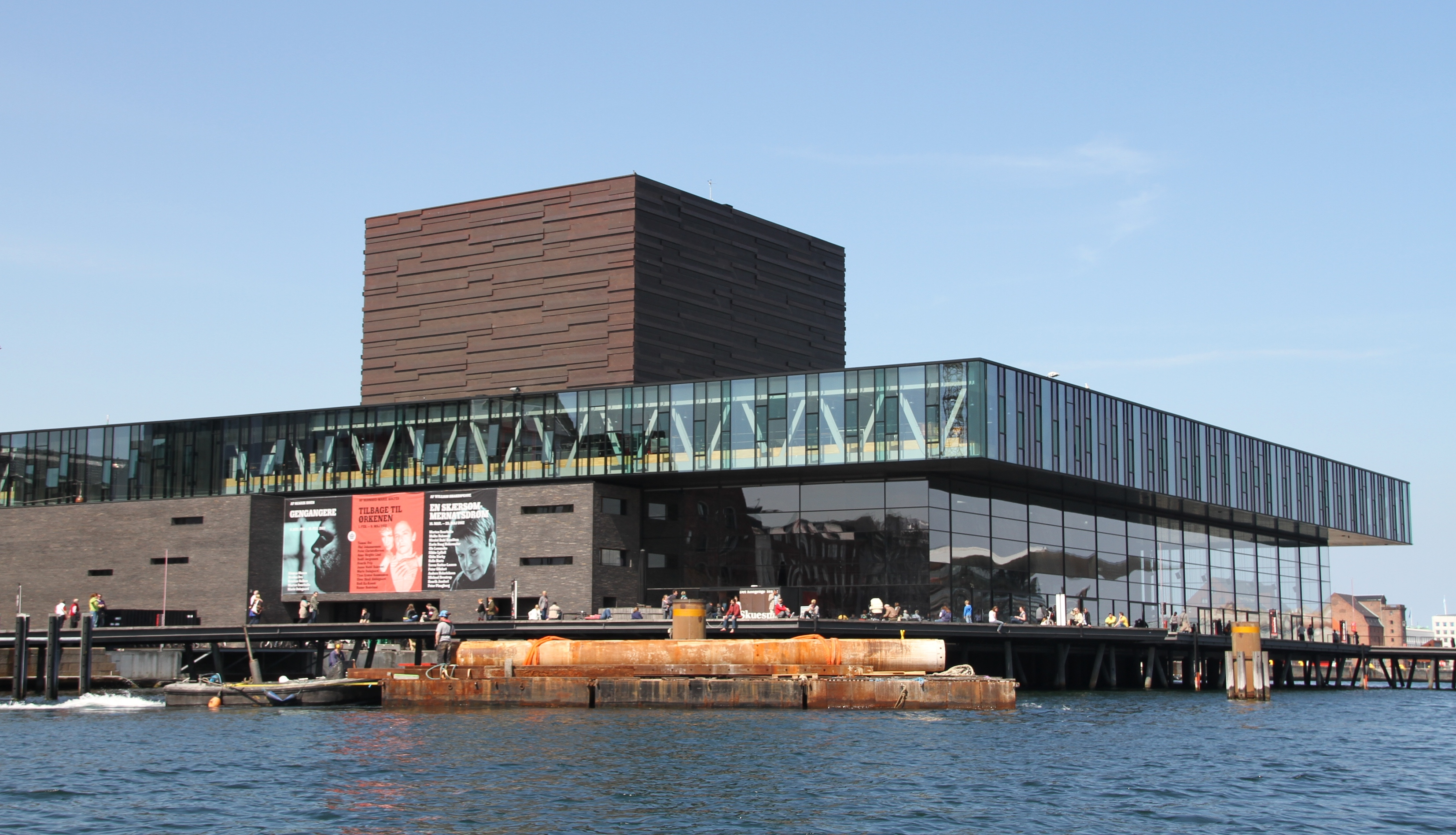 Image from Copenhagen, the capital of Denmark.